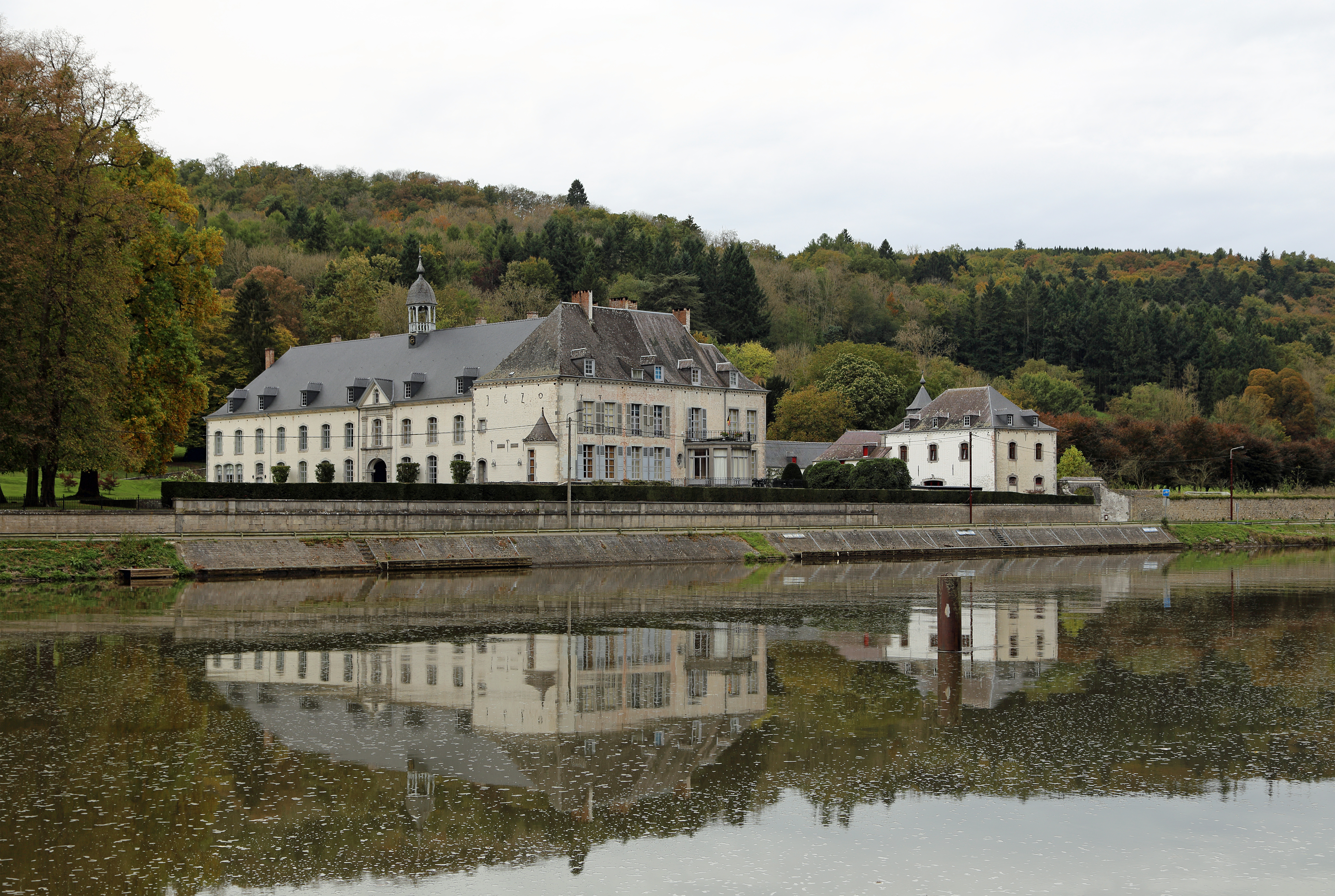 Waulsort (municipality of Hastière, province of Namur, Belgium): the former abbey